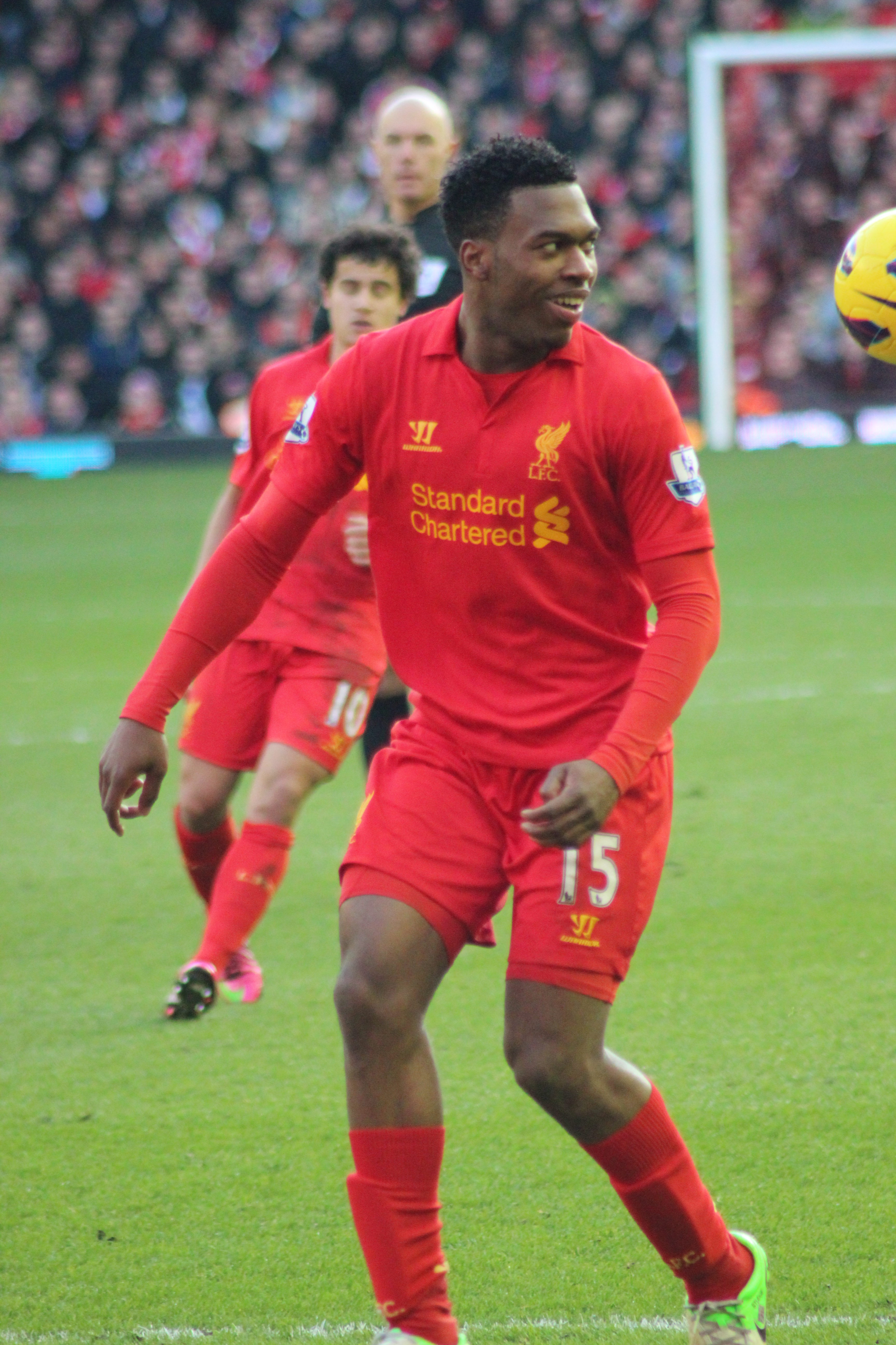 Daniel Sturridge playing for Liverpool FC against Swansea at Anfield Road on 17 February 2013.